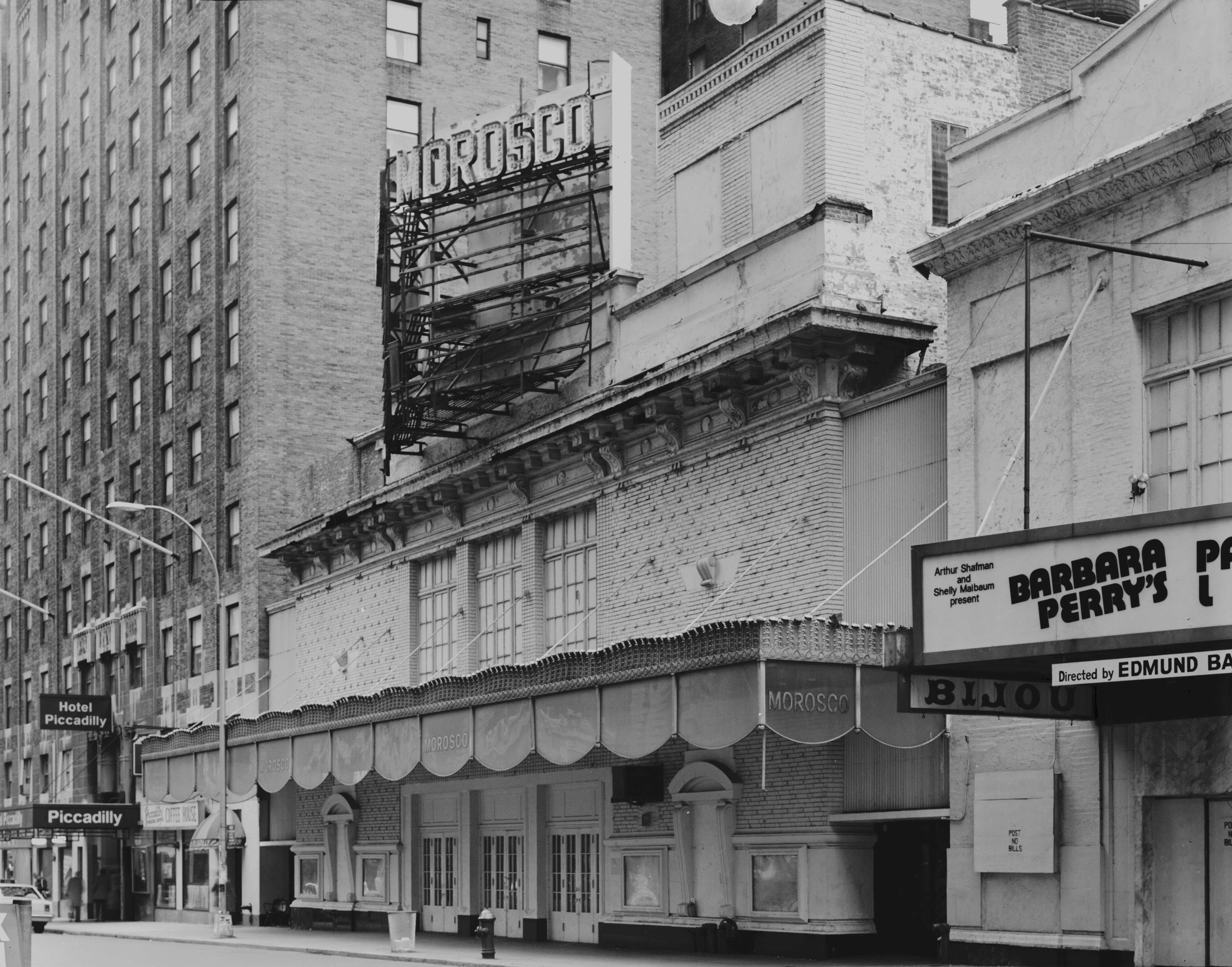 Morosco Theatre, 217 West 45th Street, New York City. Its last show was The Moony Shapiro Songbook, which opened and closed on May 3, 1981. To its right is the Bijou Theatre, with marquee announcing Barbara Perry in Passionate Ladies, which played May 5 to May 10, 1981. Both theaters were demolished in 1982. Internet Broadway Database website, "Morosco Theatre" Internet Broadway Database website, "Toho Cinema" This image was cropped, lightened, and converted from tiff to jpg format by the uploader.